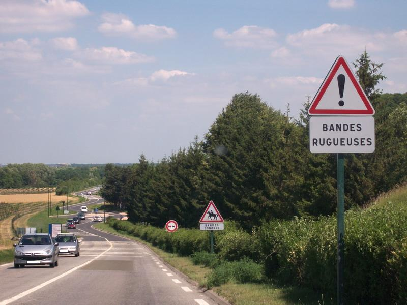 French road sign of transverse rumble strips before a dangerous crossroads.